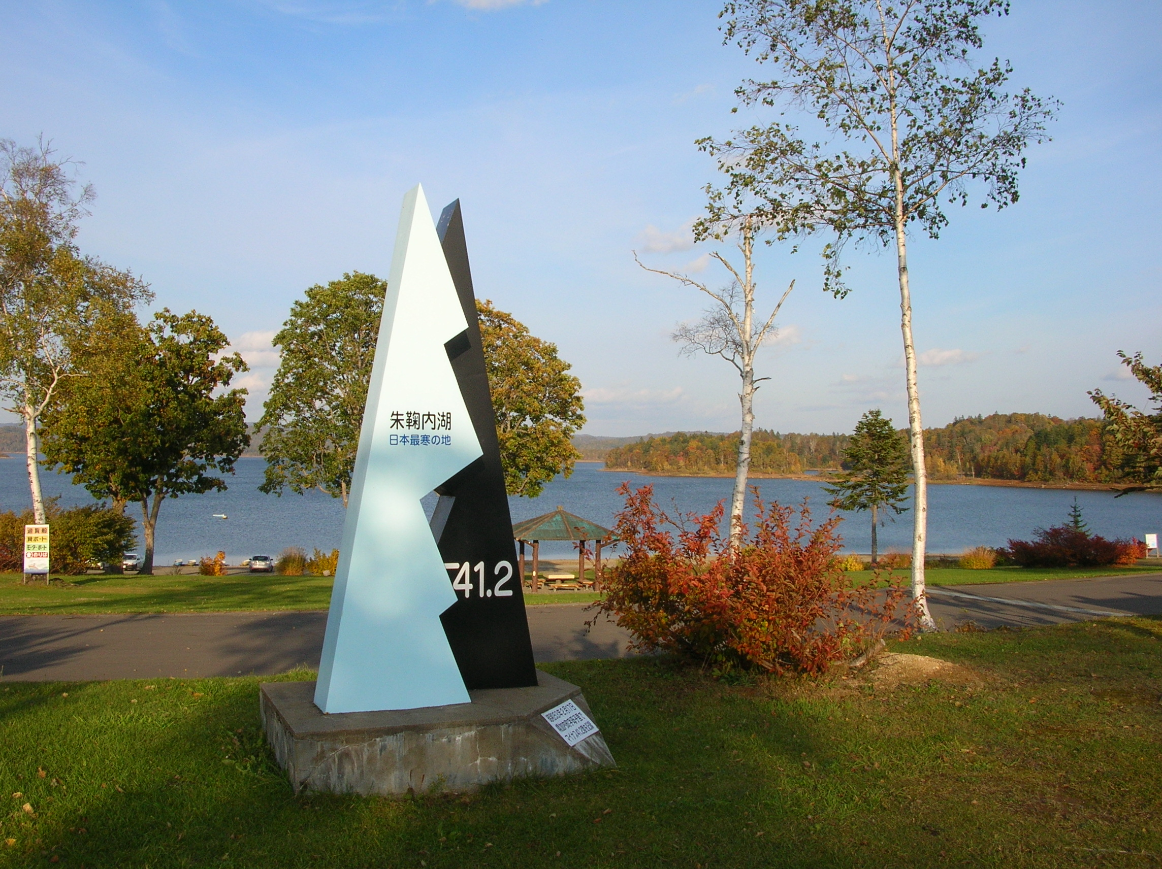 －４１.２℃（The coldest place in Japan